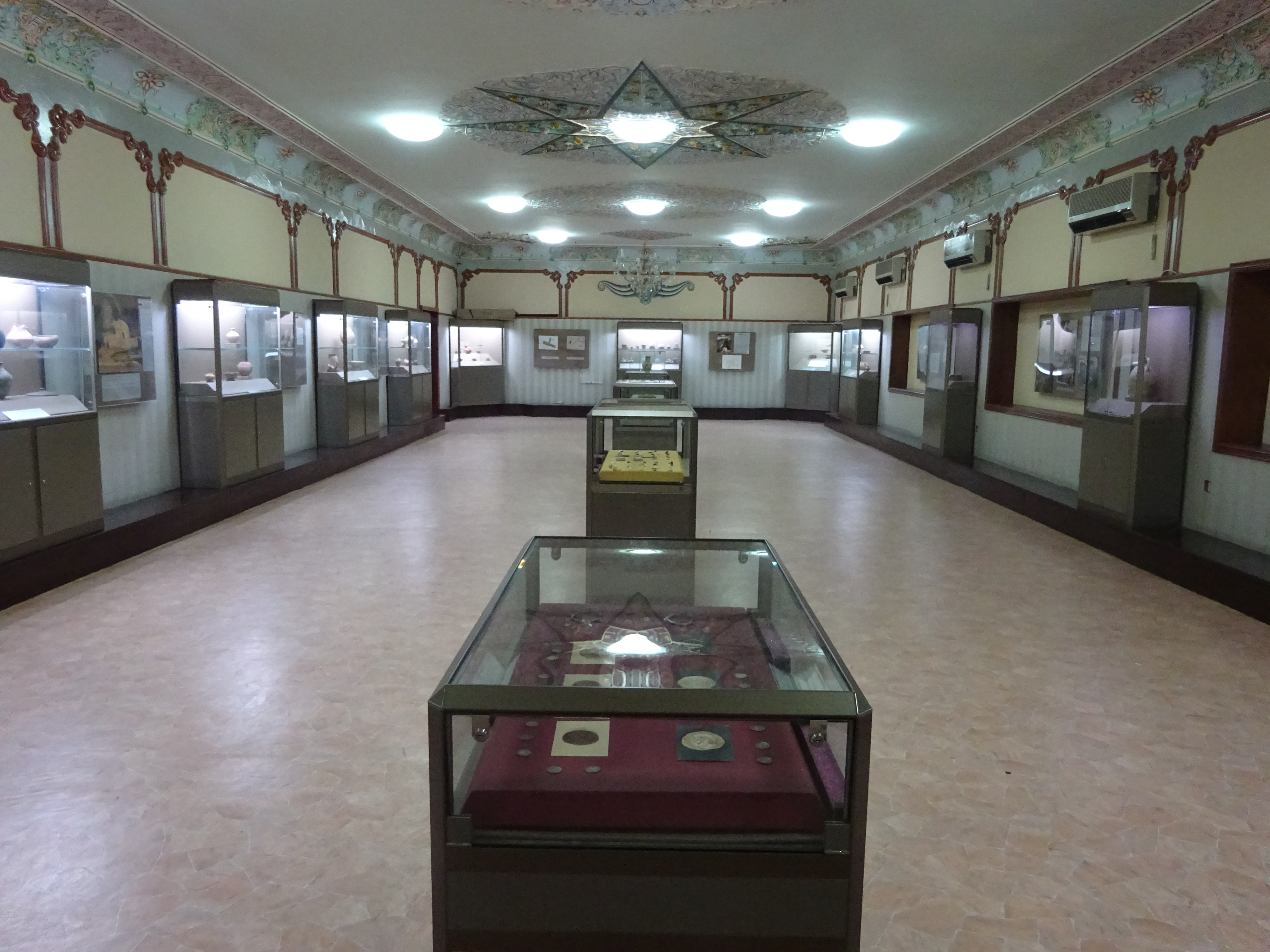 Fujairah Museum internal view, Fujairah City, UAE.